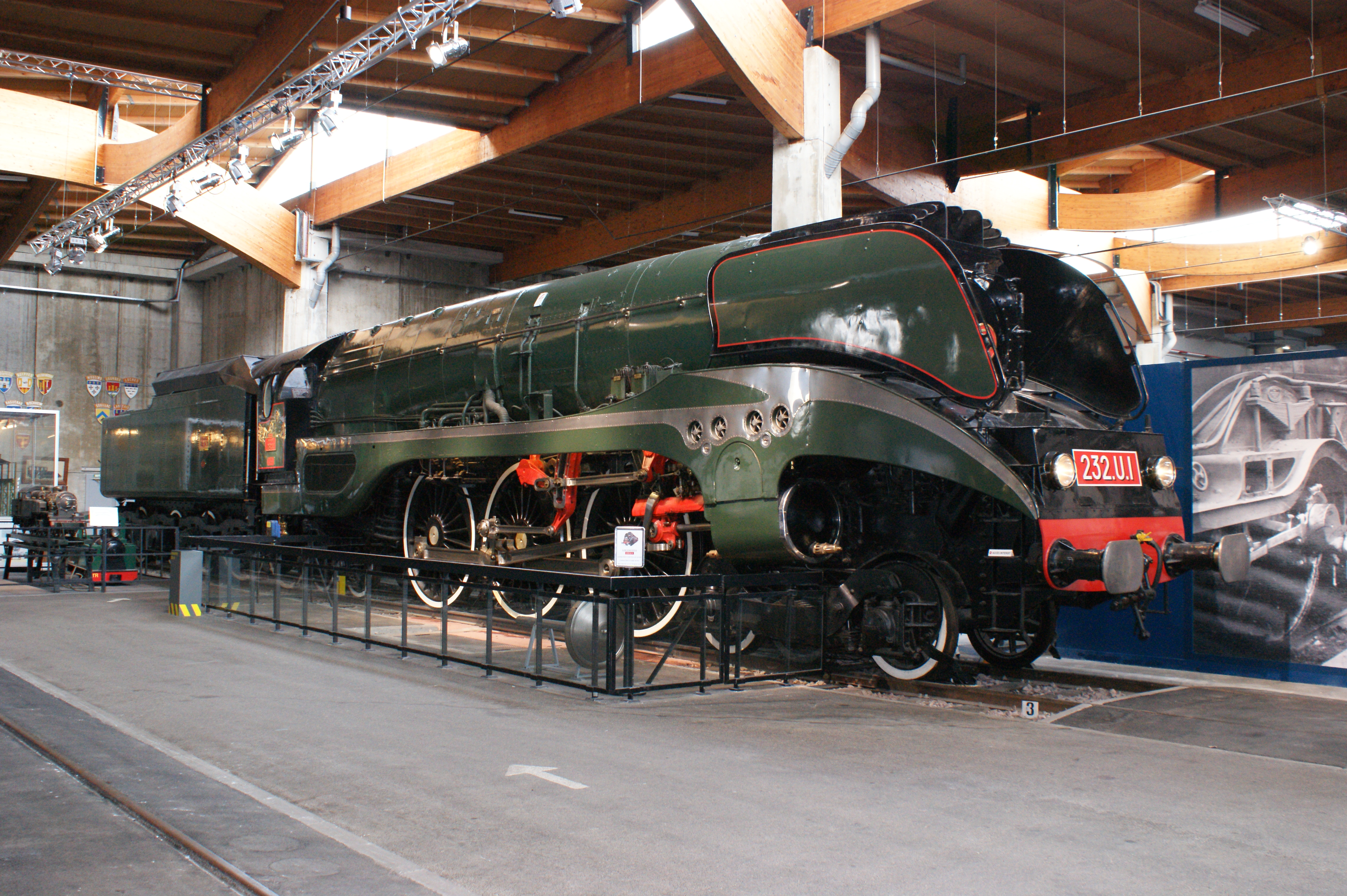 SNCF (Nord) "232U" 4-6-4 No.232.U1 (Corpet-Louvet 1908/1949), a rebuild of a partially completed pre-war Lungstrom turbine version of a De Caso Nord 232S interupted by the war. A 4-cylinder compound, it was a considerably modified version of the 232S's with a modified streamlined casing with smoke deflectors (the De Caso Baltics had a casing supposedly based on Gresley's "P2" 2-8-2's). One of the best French express engines ever produced. 3/09.